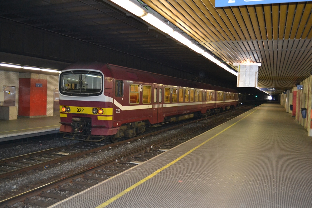 Belgian Railways MS86 type train at Merode station en route for Halle on the line 26 suburban service.